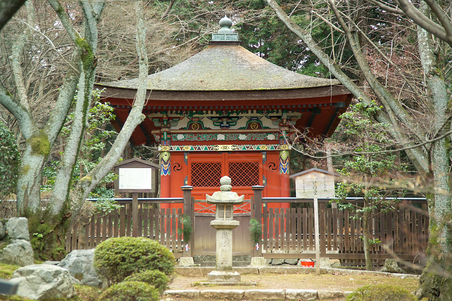 Bishamon-do at Mii-dera, a Buddhist temple in Otsu, Shiga Prefecture, Japan. I took the photo and contribute my rights in it to the public domain; individuals and organizations retain rights to images in it.